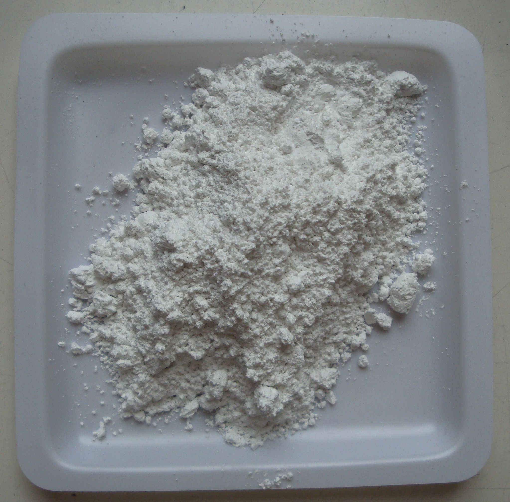 Calcium carbonate is a common extender for powder coatings.